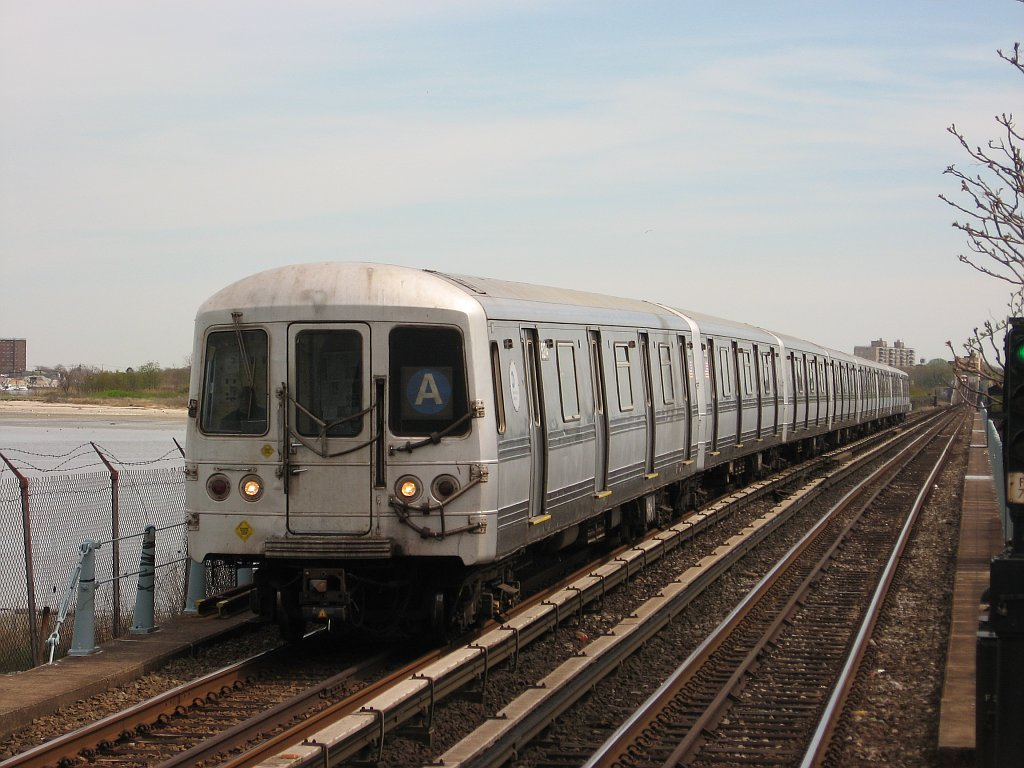 "A" train entering the Broad Channel station, Broad Channel, NY